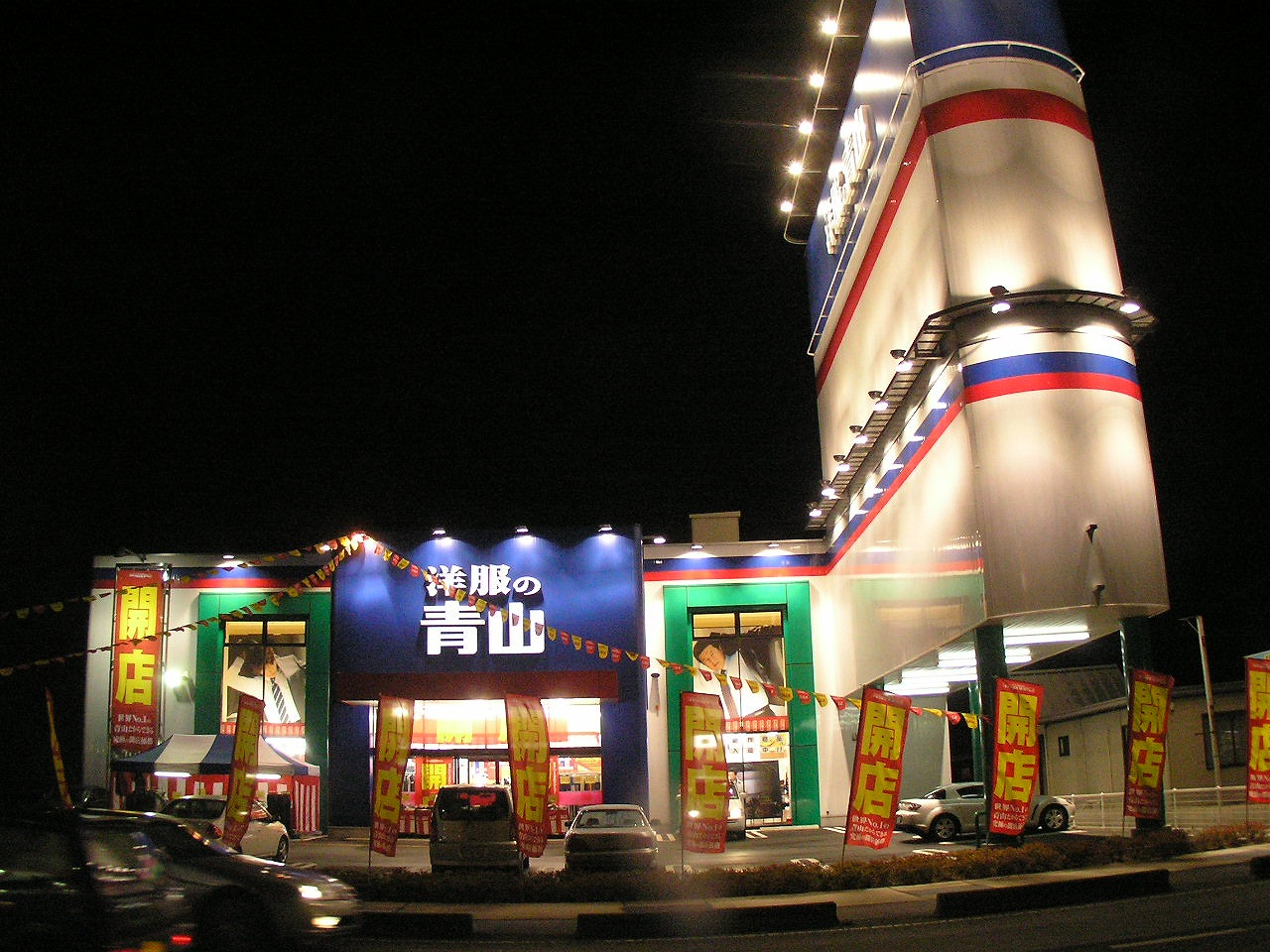 aoyama japan